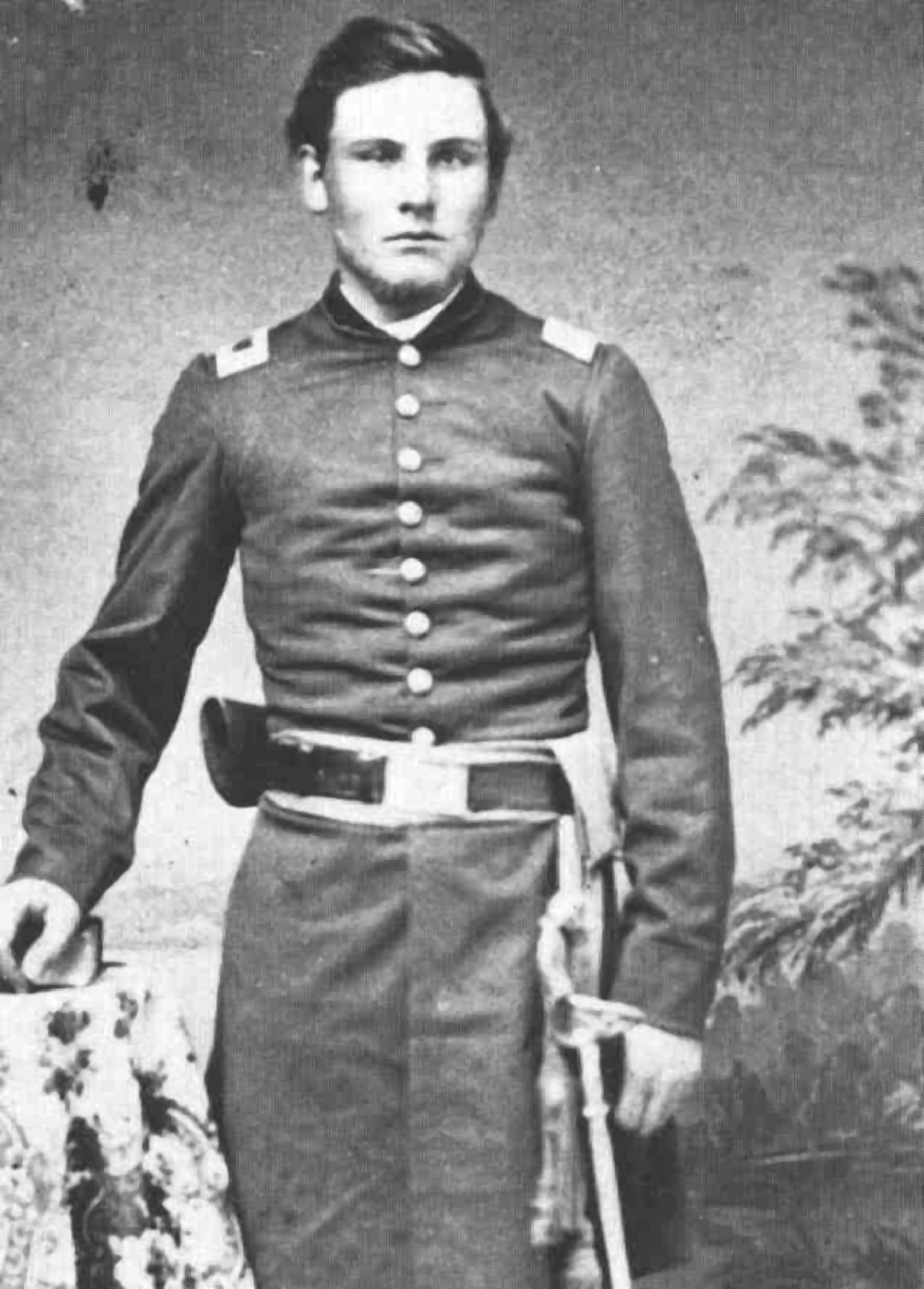 Medal of Honor winner